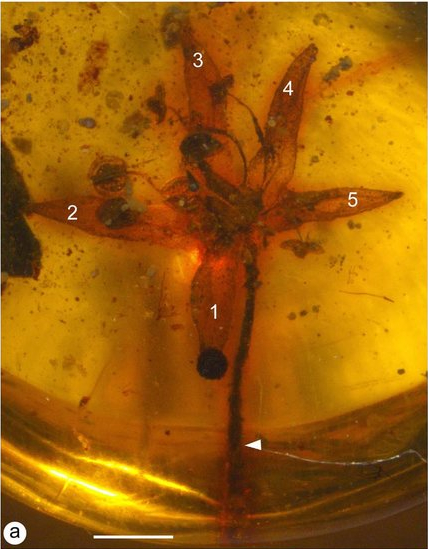 Lijinganthus revoluta gen. et sp. nov. embedded in a Myanmar amber. (a) Side view of the flower, showing physically connected pedicel (white triangle), petals (1–5), and stamens. Scale bar = 1 mm.